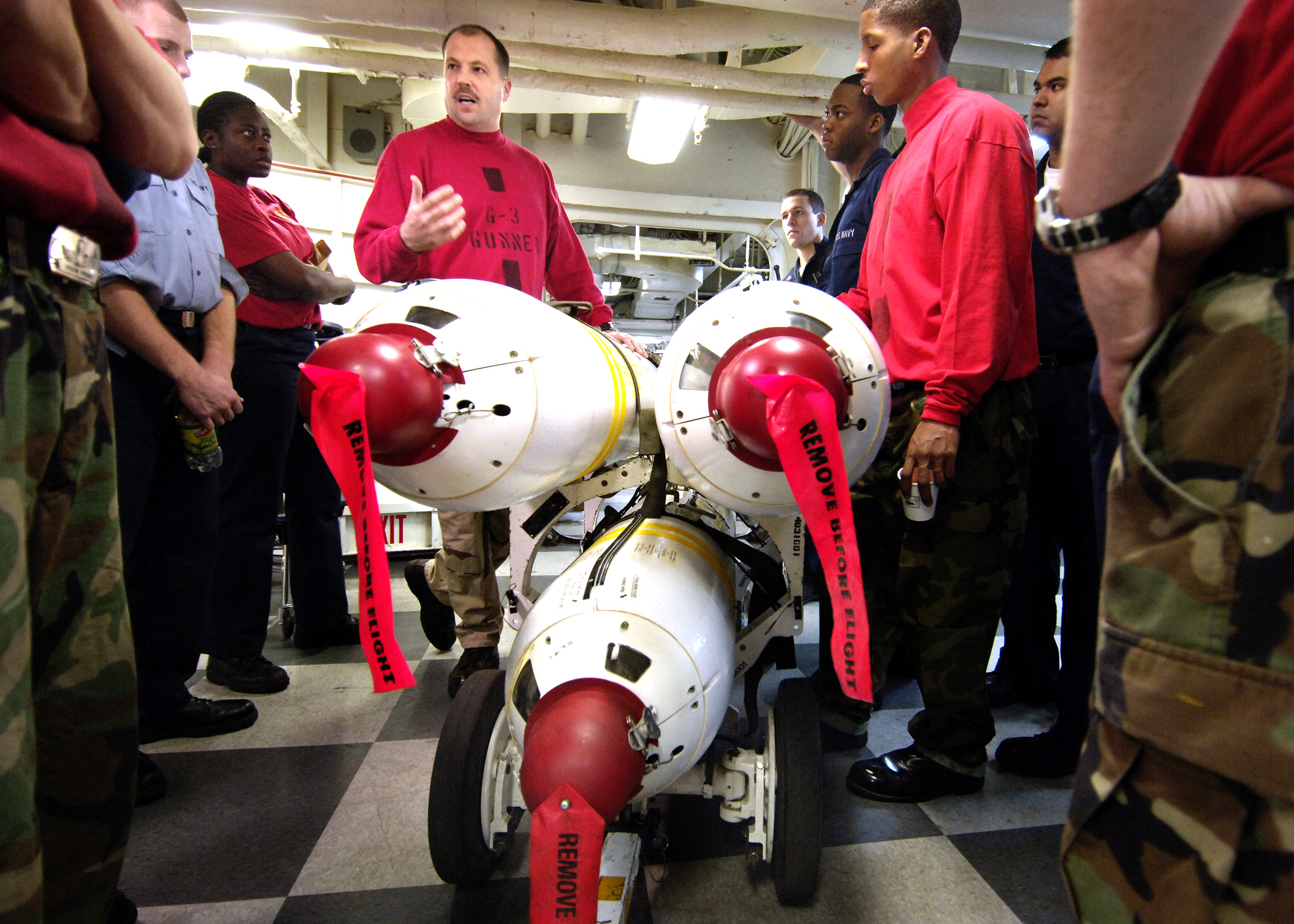 Atlantic Ocean (March 7, 2006) – Lt. Joe Thompson briefs several aviation ordnancemen about the Mark 20 Rockeye cluster bomb as ordnance is staged on the mess decks before being moved to the flight deck aboard the nuclear-powered aircraft carrier USS Enterprise (CVN 65). Enterprise and embarked Carrier Air Wing One (CVW-1) are currently underway in the Atlantic Ocean conducting Composite Training Unit Exercise (COMPTUEX). U.S. Navy photo by Photographer's Mate 2nd Class Milosz Reterski (RELEASED)